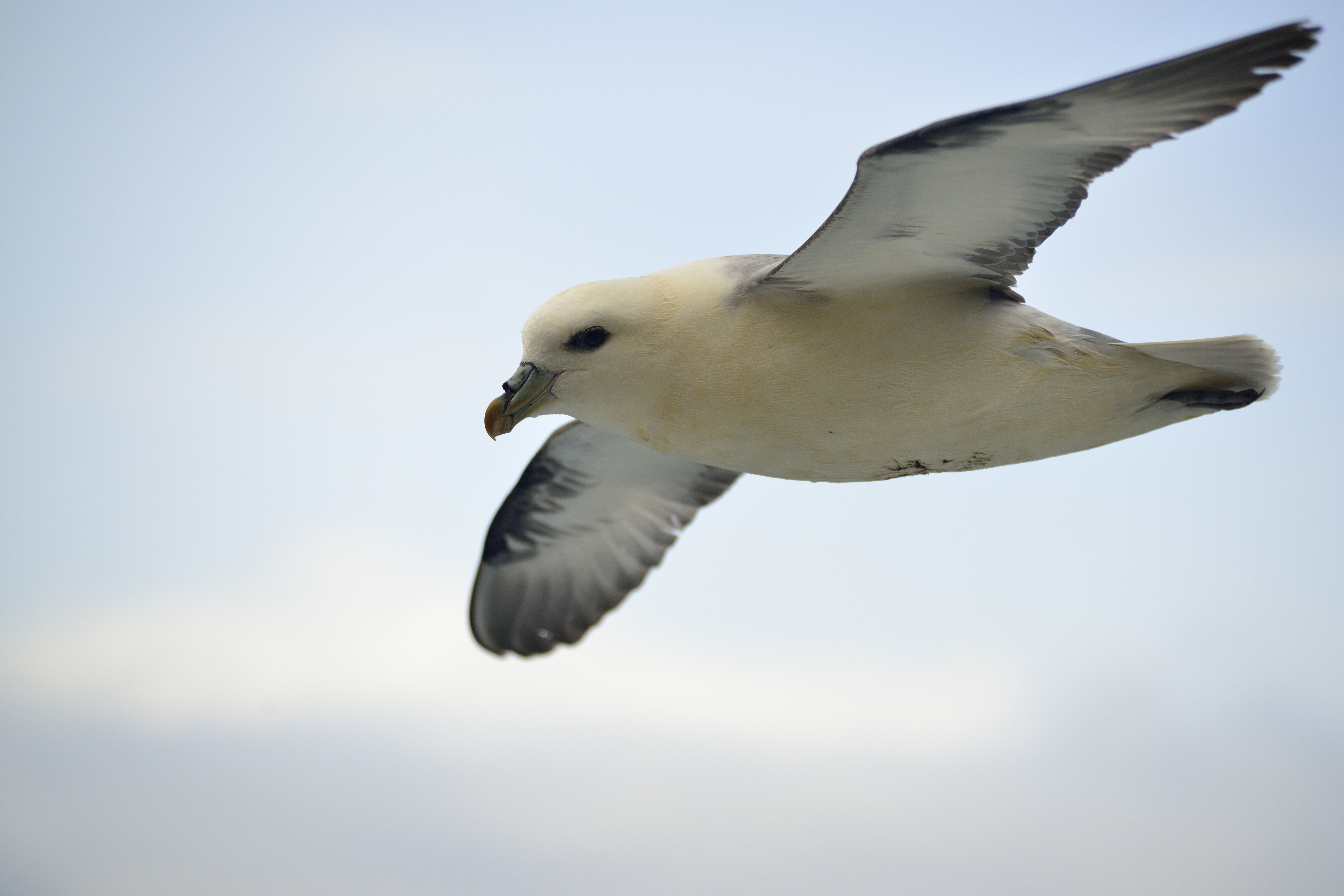 Northern Fulmar (Fulmaris glacialis) seen on the boat trip to Kalsoy and Cape Enniberg. 27 July 2013